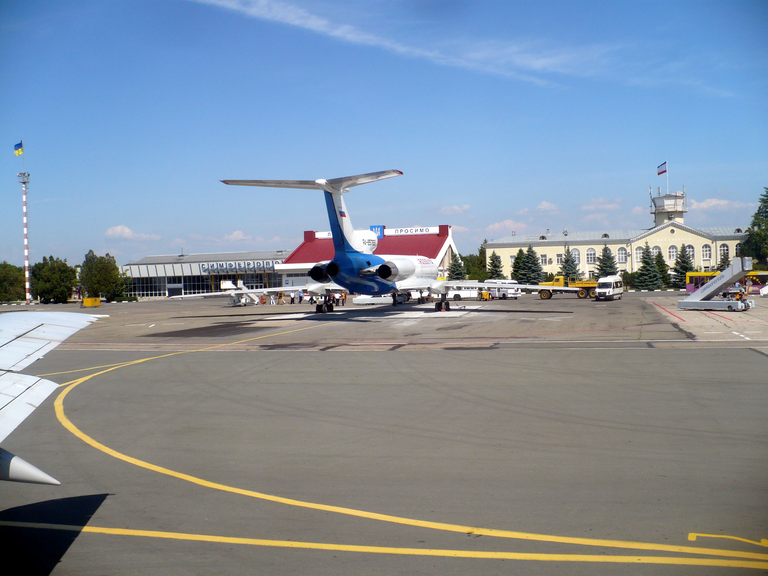 Leaving Simforopol. View to airport building from runway. June, 2009.